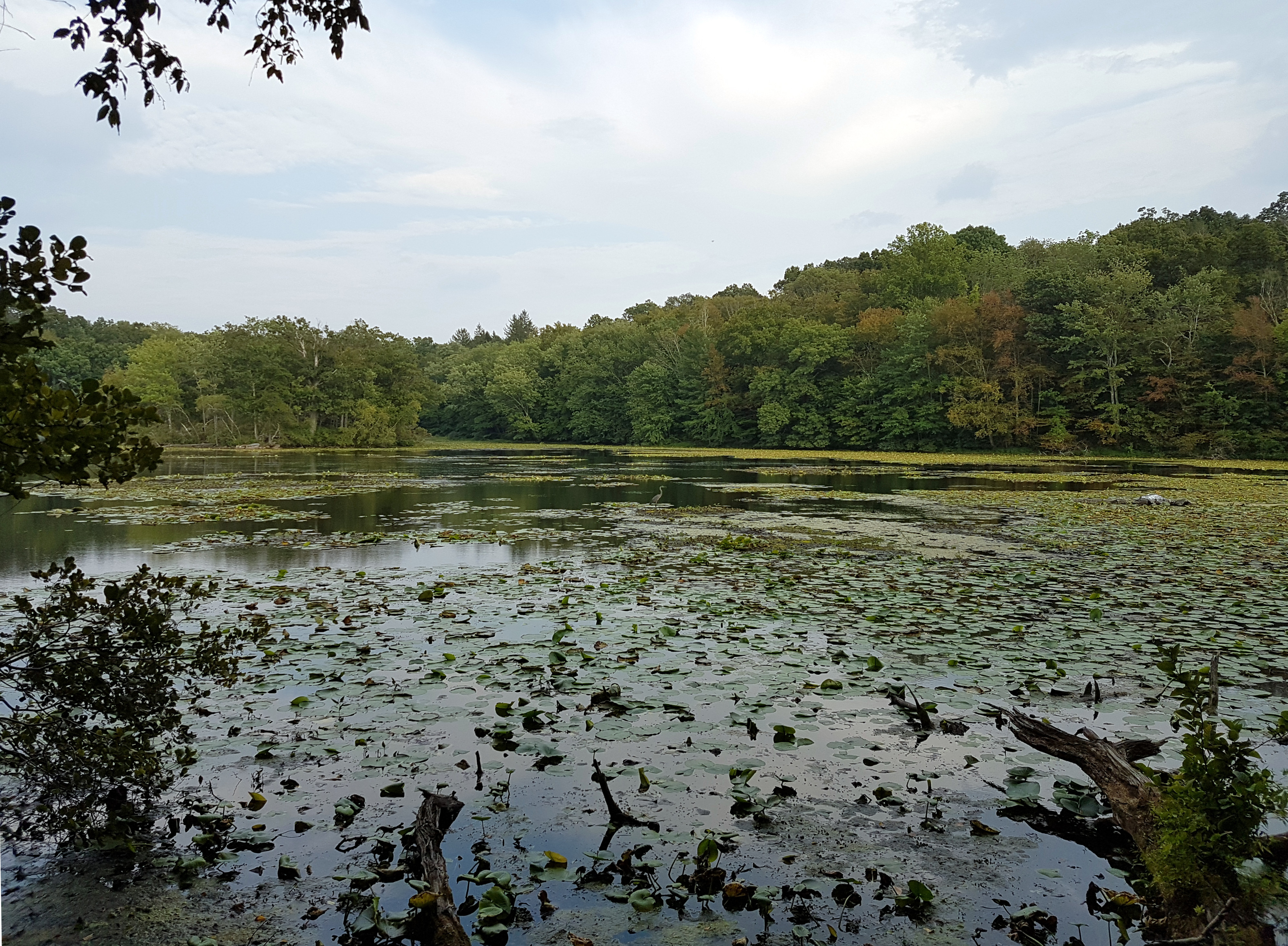 View of Teatown Lake in Westchester County, New York.